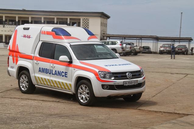 Ambulance Emergency Medical Services of the Ghana Health Service.